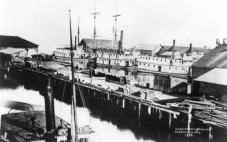 Peiser, Yesler, Harrington, and Crawford wharves on waterfront of Seattle, Washington. Image gives year 1882 but it is likely earler, from 1875 to 1879.. Steamboat Teaser is in foreground. Presence of Teaser tentatively allows this photograph to be dated as between 1875, when Teaser was sent to Puget Sound by the Oregon Steam Navigation Company, and 1879, when Teaser sank. While Teaser was later raised, the vessel was converted to a sealing schooner, which the vessel shown in this image does not appear to be. This also allows a rough identification of the five sternwheelers moored alongside Yesler's wharf. By 1876, the following sternwheelers were operating on Puget Sound and the rivers flowing into it: Zephyr, Annie Stewart, Nellie, Fannie Lake, J.B Libby, Despatch, Phantom, Comet, Wenat, Otter, Celilo, Success, and Ruby. Some of these steamers are probably shown in this image.